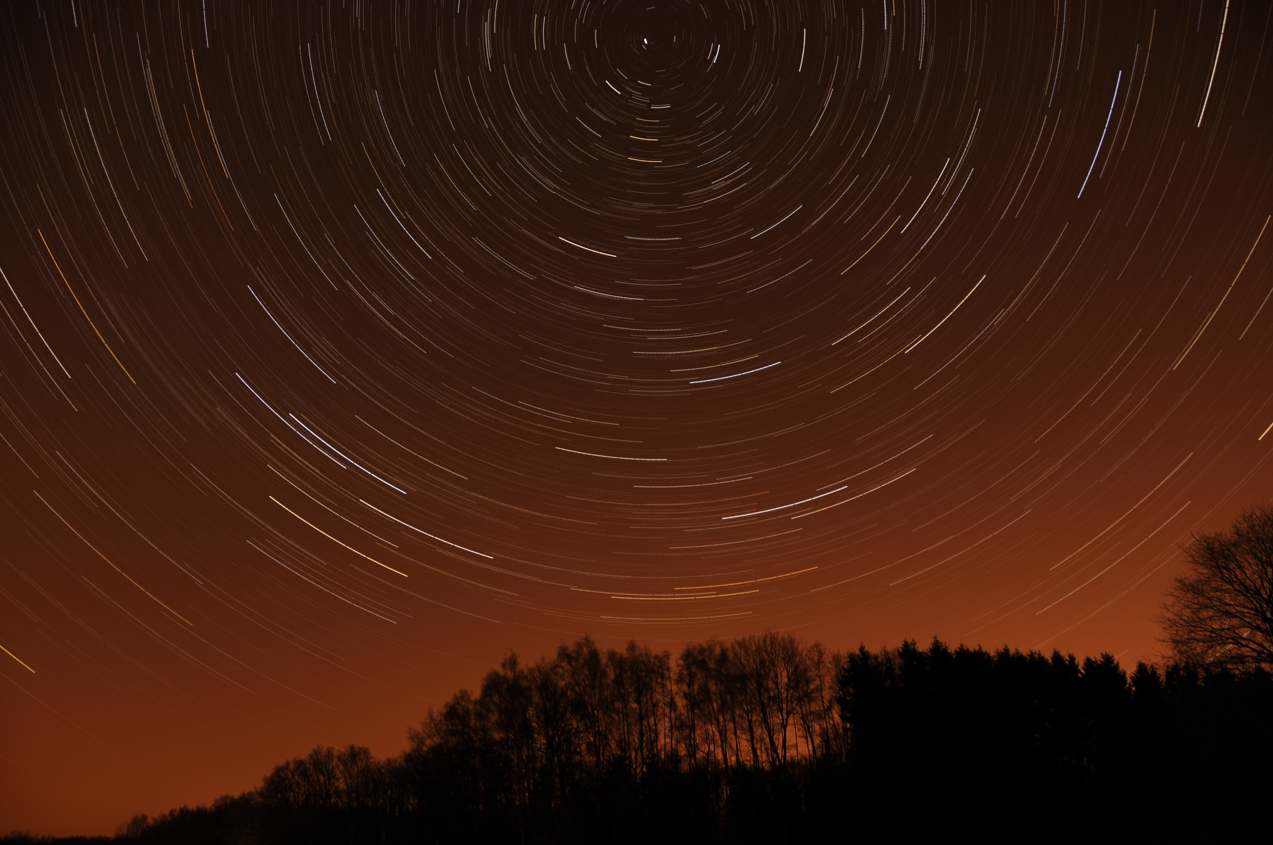 This photograph was taken with a Nikon D300 Filé d'étoiles assemblé avec Startrails.